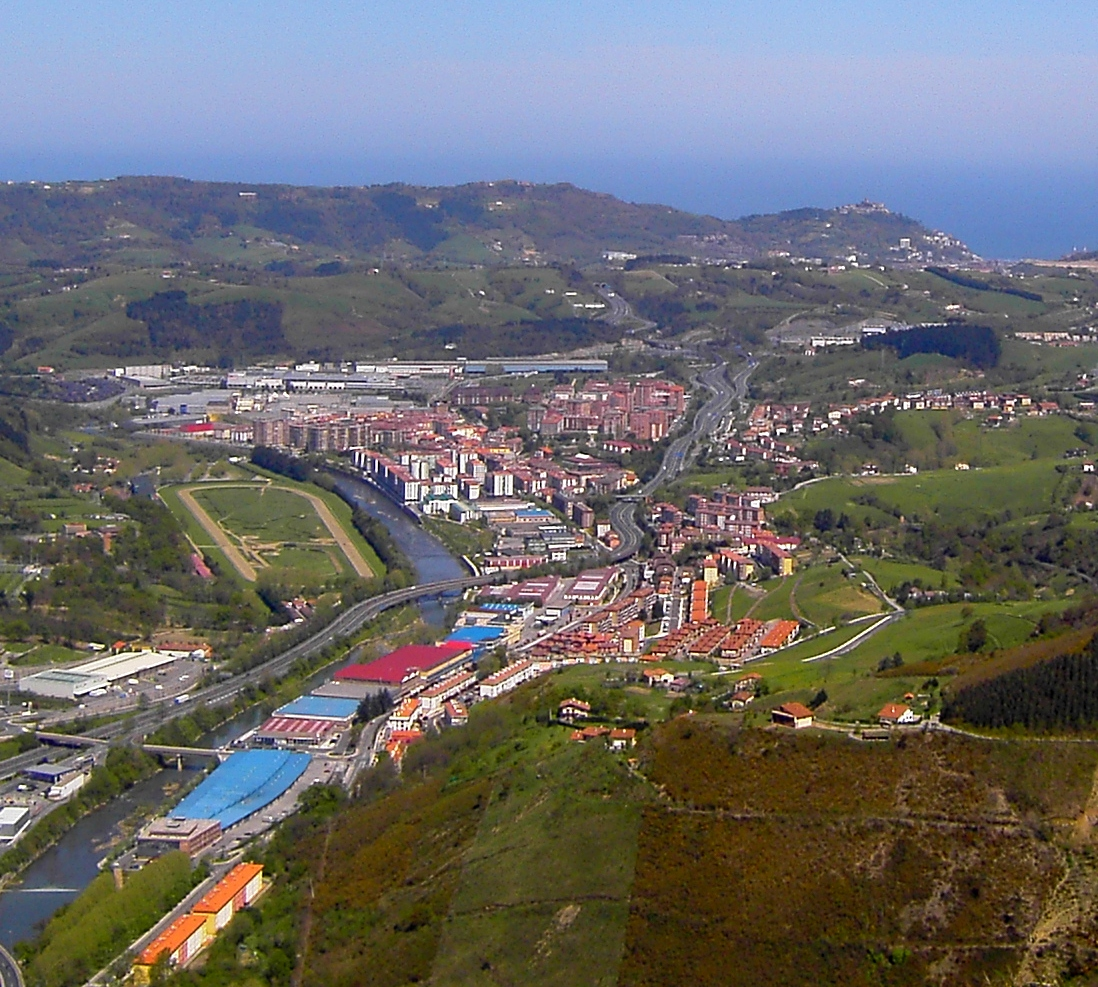 Lasarte-Oria municipality (Guipuscoa, Basque Country, Spain)